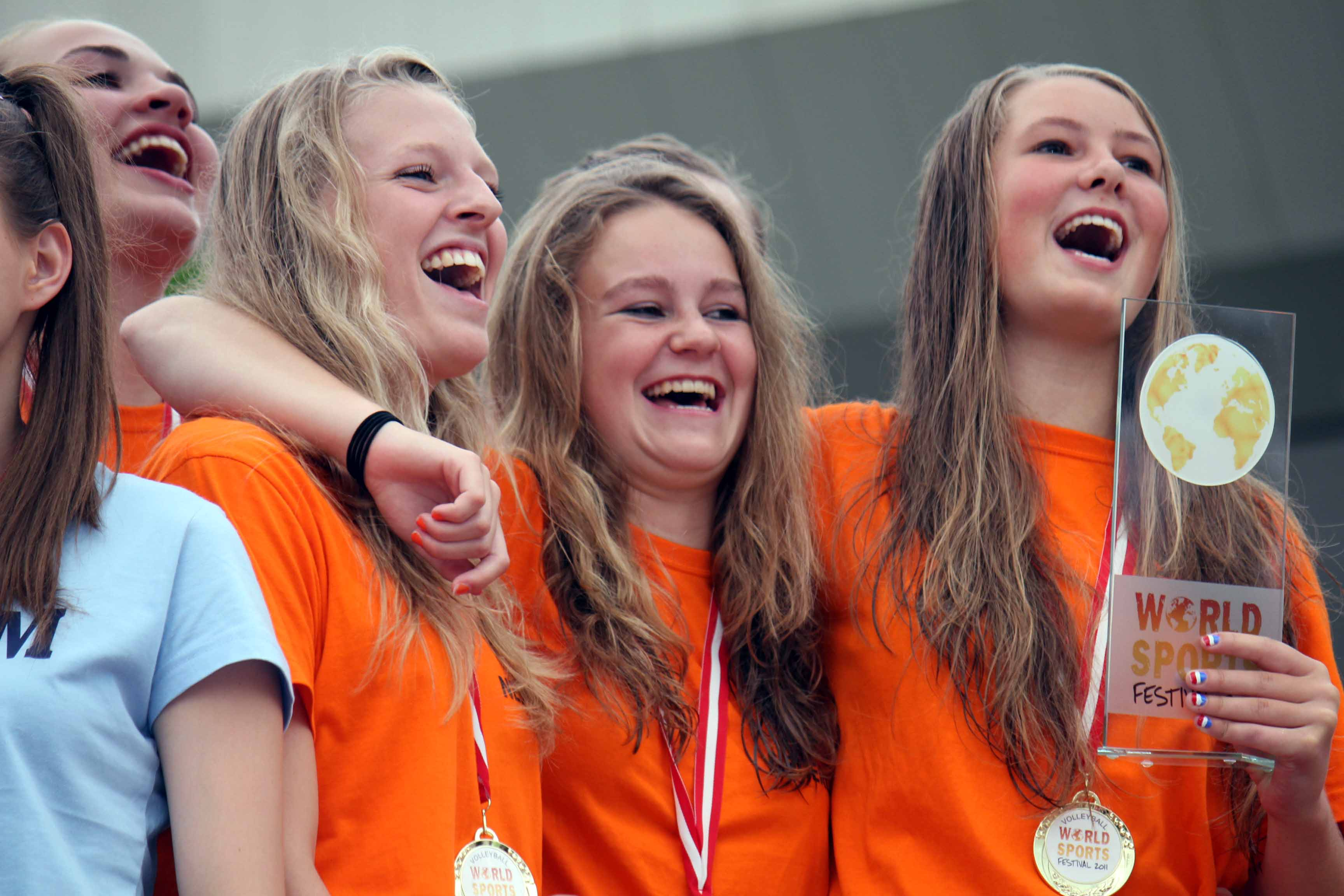 World Sports Festival 2011 - Winning Ceremony (Dutch Girls)